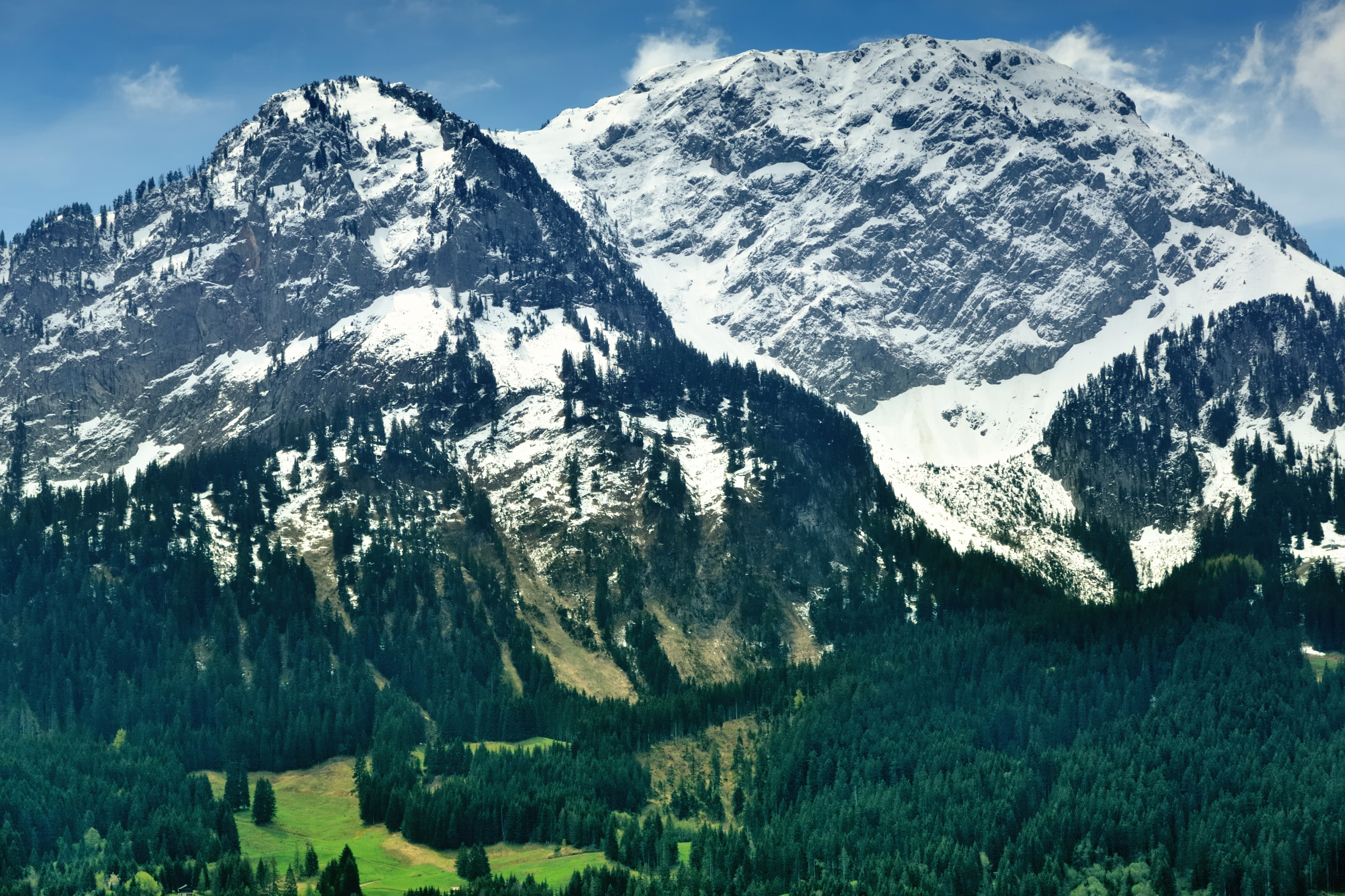 Rocher du Midi, Château-d'Oex (Le Mont)